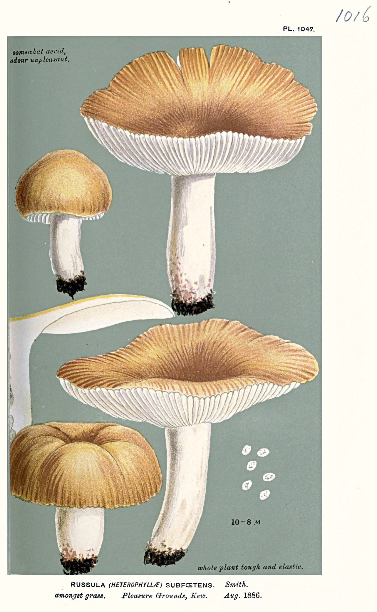 Ilustrations of British Fungi (Hymenomycetes), to serve as an atlas to the "Handbook of British Fungi". by Mordecai Cubitt Cooke; Published 1881 by Williams and Norgate in London. (English). Plate 1047. Page 389 RUSSULA (HETEROPHYLLAE) SUBFOETENS. Smith. amongst grass. Pleasure Grounds, Kew. Aug. 1886.